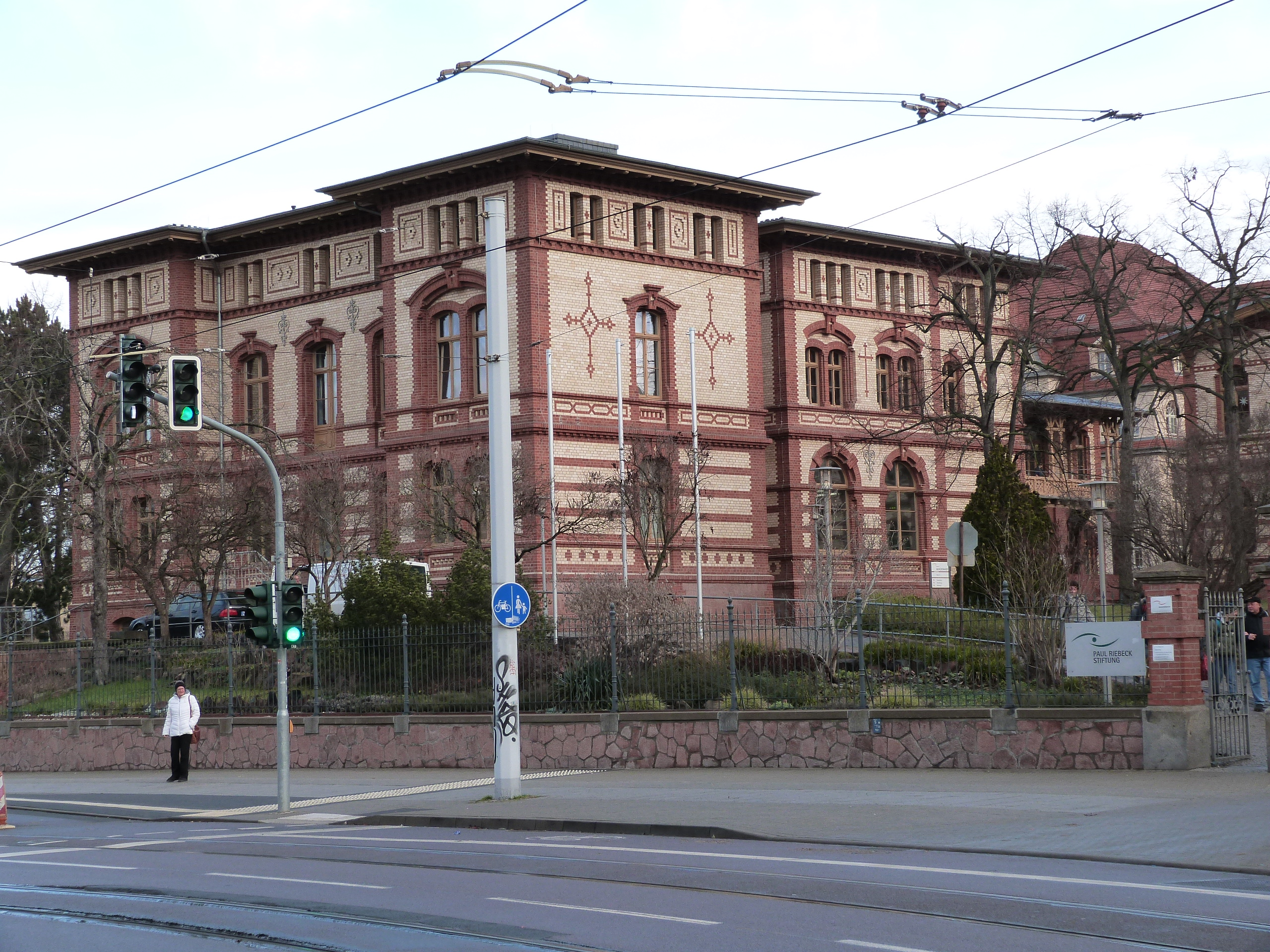 Street "Beesener Straße" No. 15, Nursing home, Halle (Saale)